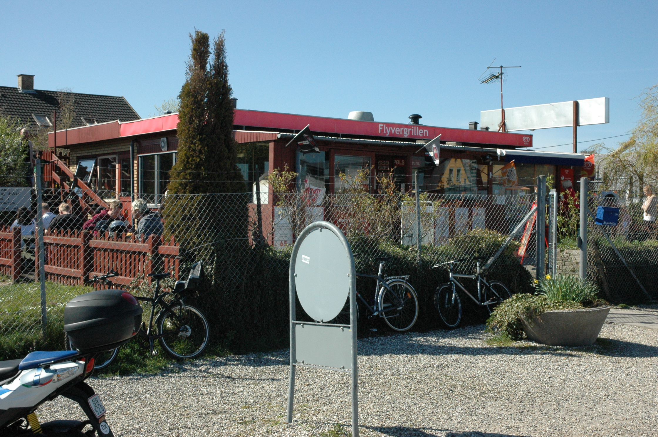 Snack bar near Copenhagen airport (CPH), popular among plane spotters